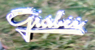 The logo of Hermann Graber's Carrosserie.